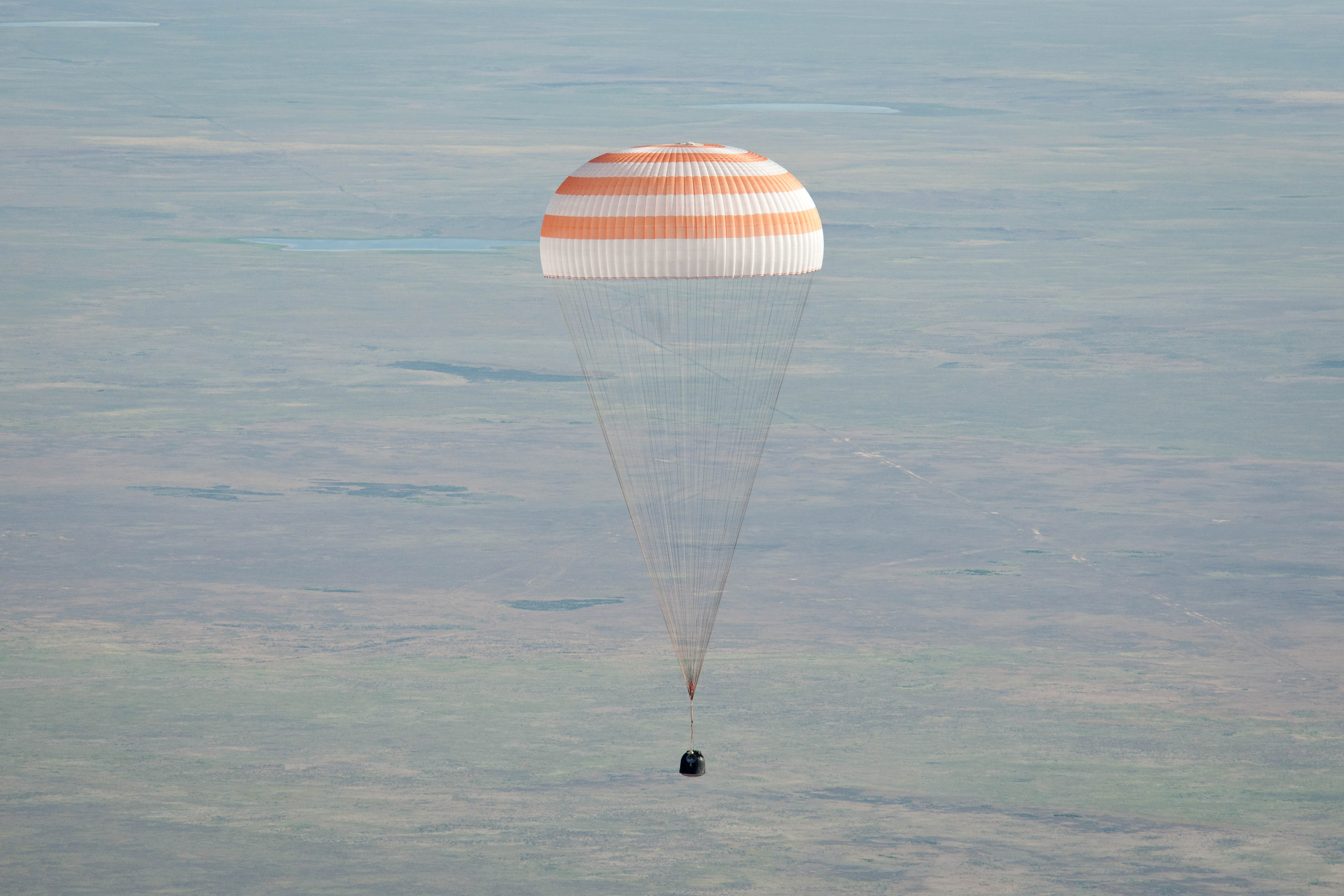 The Soyuz TMA-20 spacecraft is seen as it glides to a landing with Russian cosmonaut Dmitry Kondratyev, Expedition 27 commander, and two flight engineer crewmates – Paolo Nespoli of the European Space Agency and Cady Coleman of NASA – in a remote area southeast of the town of Dzhezkazgan, Kazakhstan, May 24, 2011 (local time or May 23 in USA time zones). The three are returning from more than five months onboard the International Space Station where they served as members of the Expedition 26 and 27 crews.